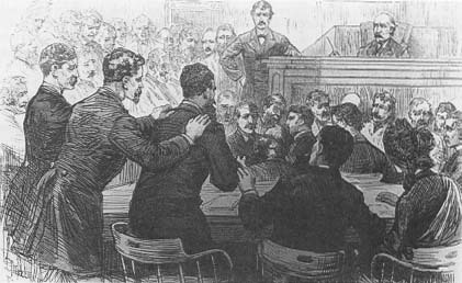 Sketch of Charles J. Guiteau's trial in Harper's Weekly, 1882